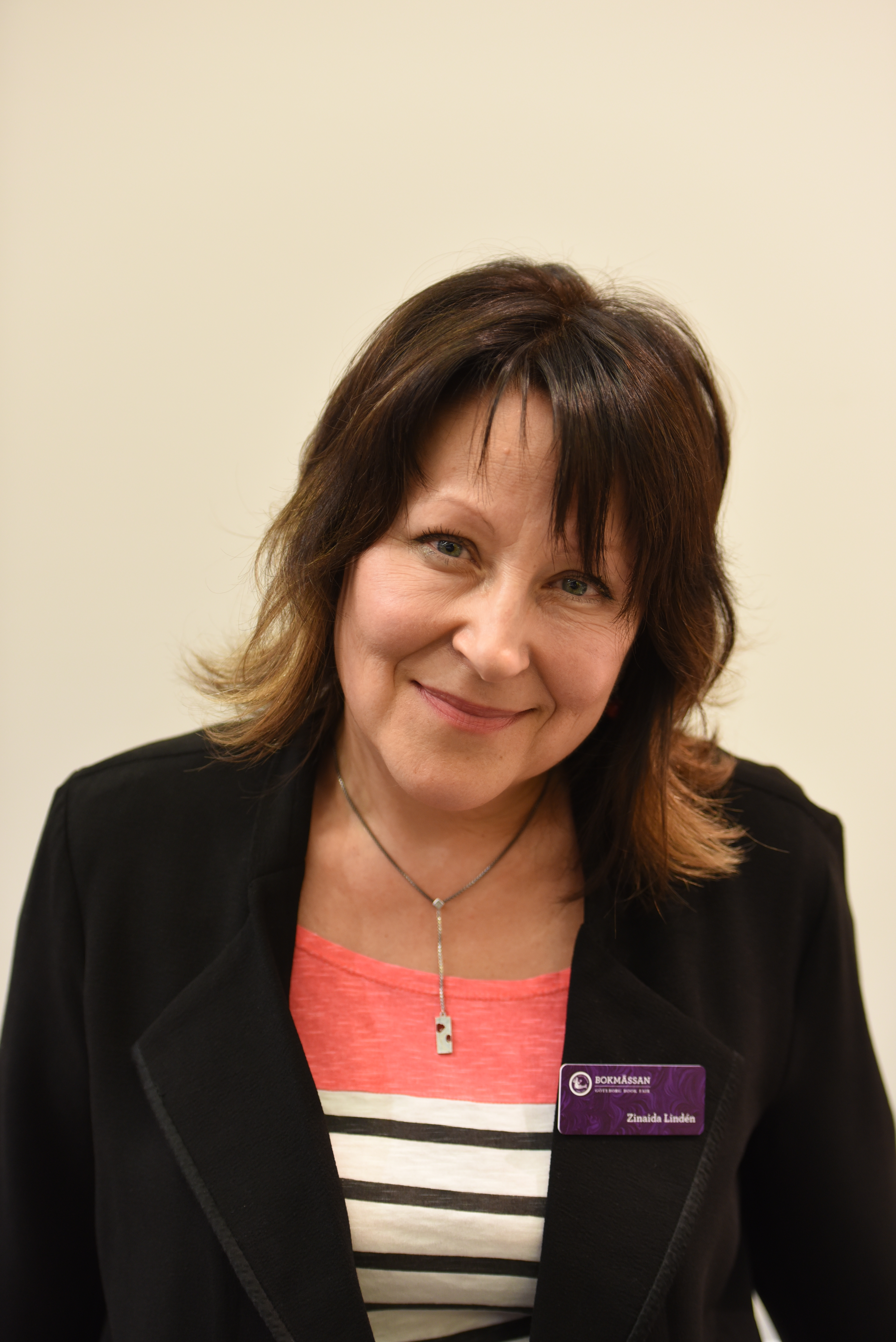 The writer Zinaida Lindén at Göteborg Book Fair 2016.